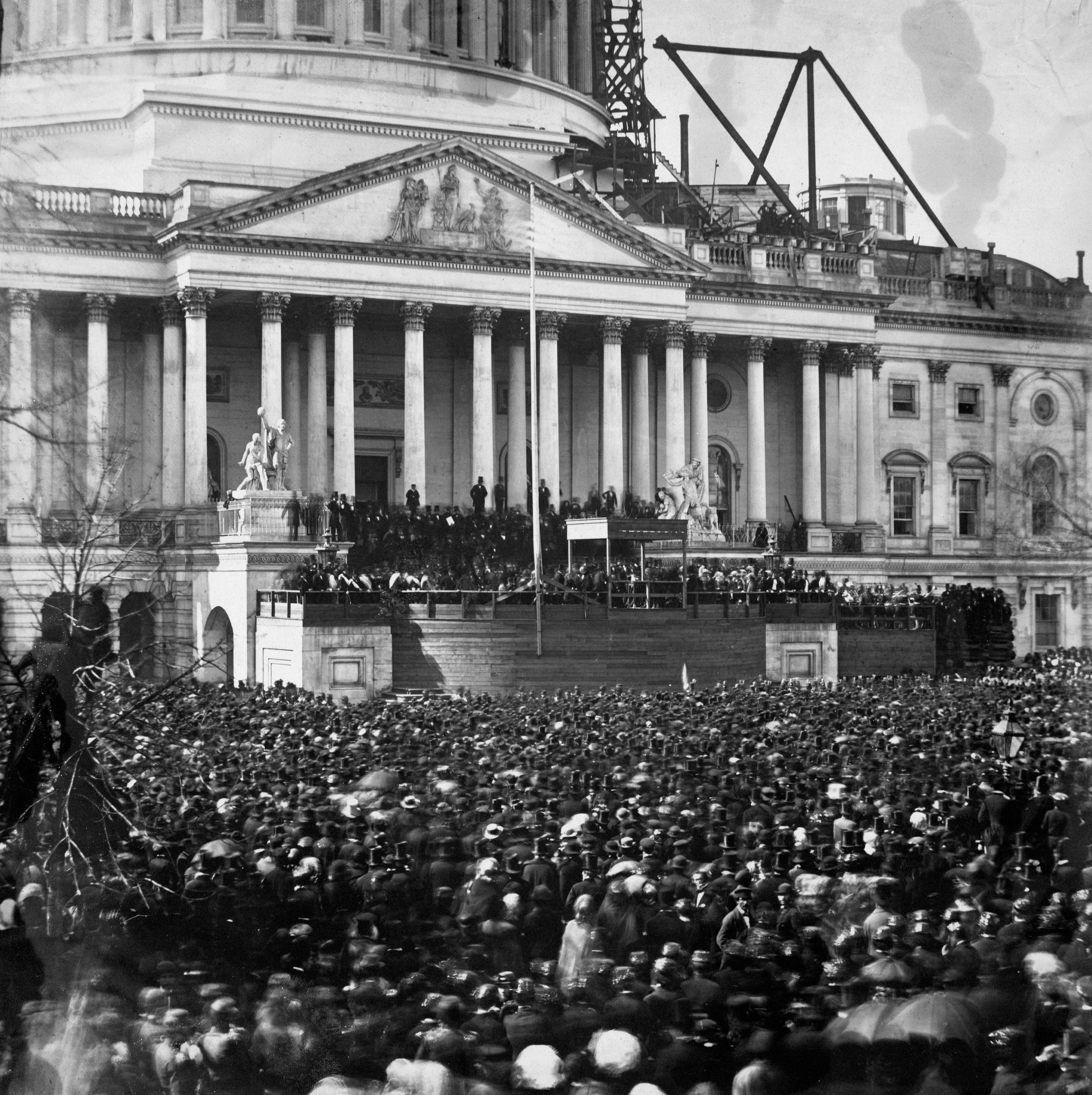 Photograph shows participants and crowd at the first inauguration of President Abraham Lincoln, at the U.S. Capitol, Washington, D.C. Lincoln is standing under the wood canopy, at the front, midway between the left and center posts. His face is in shadow but the white shirt front is visible. (Source: Ostendorf, p. 87) "A distant photograph from a special platform by an unknown photographer, in front of the Capitol, Washington, D.C., afternoon of March 4, 1861. 'A small camera was directly in front of Mr. Lincoln,' reported a newspaper, 'another at a distance of a hundred yards, and a third of huge dimensions on the right ... The three photographers present had plenty of time to take pictures, yet only the distant views have survived." (Source: Ostendorf, p. 86-87) The 1861 inauguration is believed to be the first ever photographed, and some sources credit it to Scottish photographer, Alexander Gardner[1]